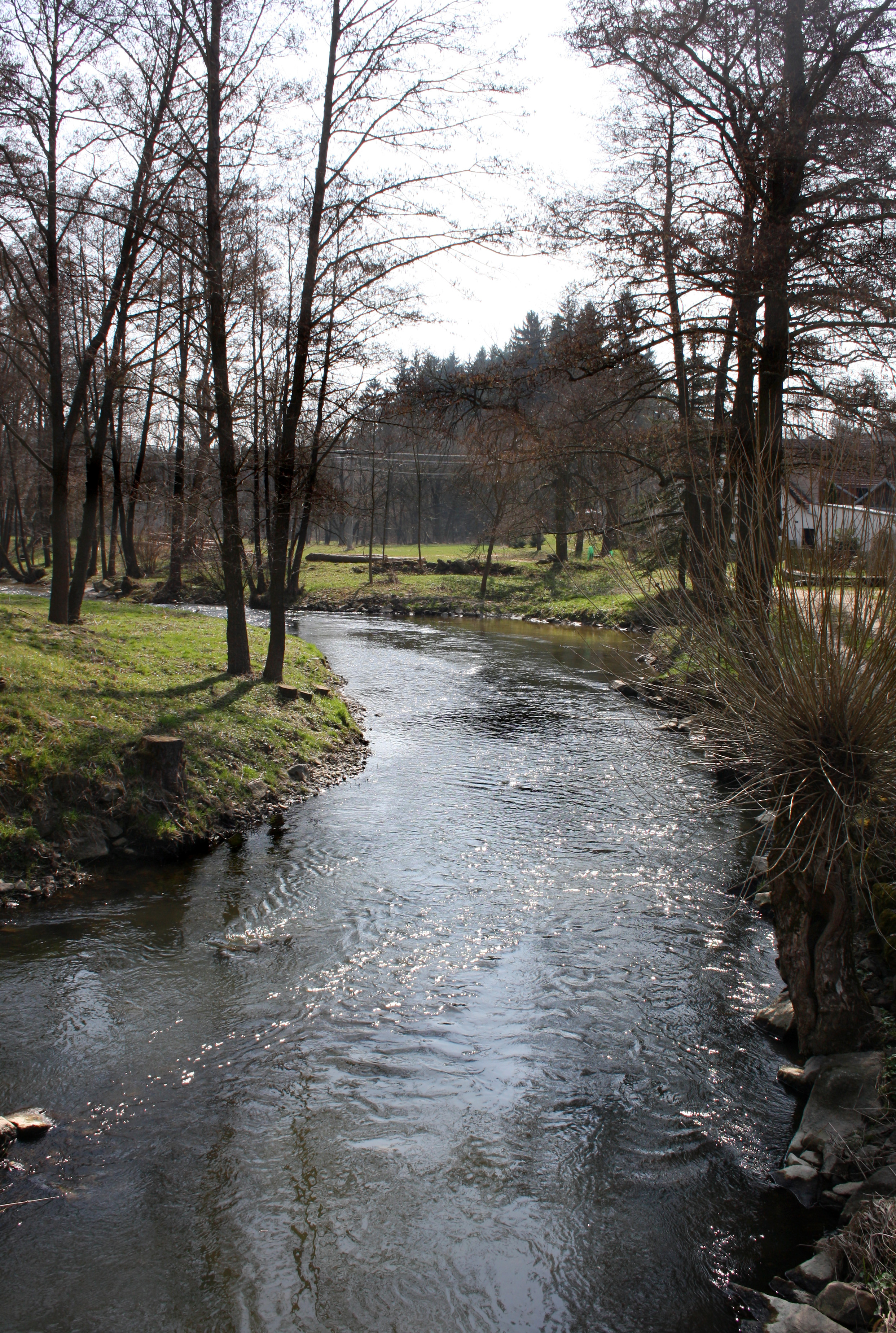 Balinka river in Frankův Zhořec, part of Stránecká Zhoř